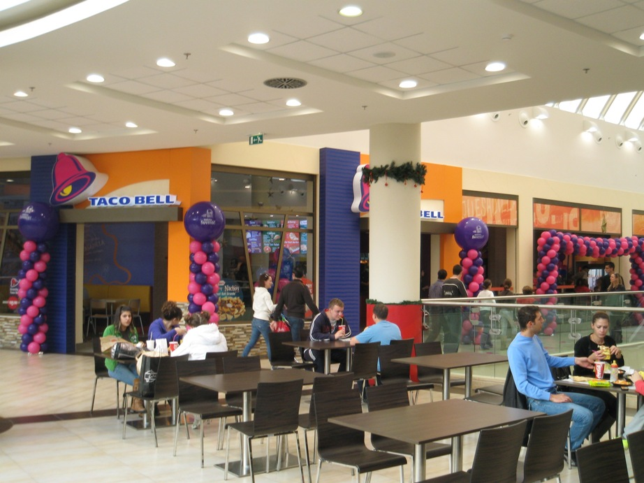 First Taco Bell Restaurant in Cyprus at the MyMall in Limassol.